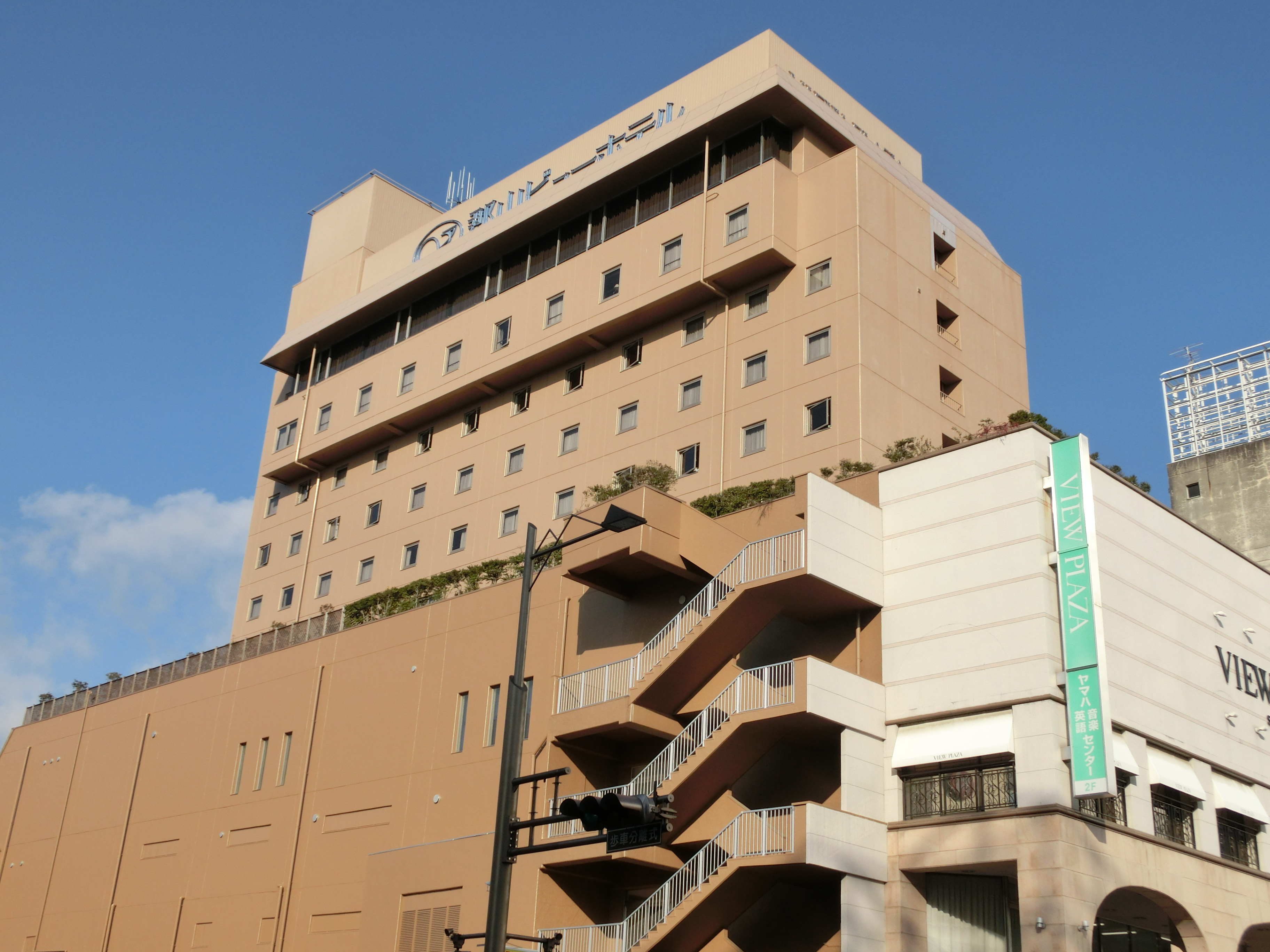 Koriyama View Hotel